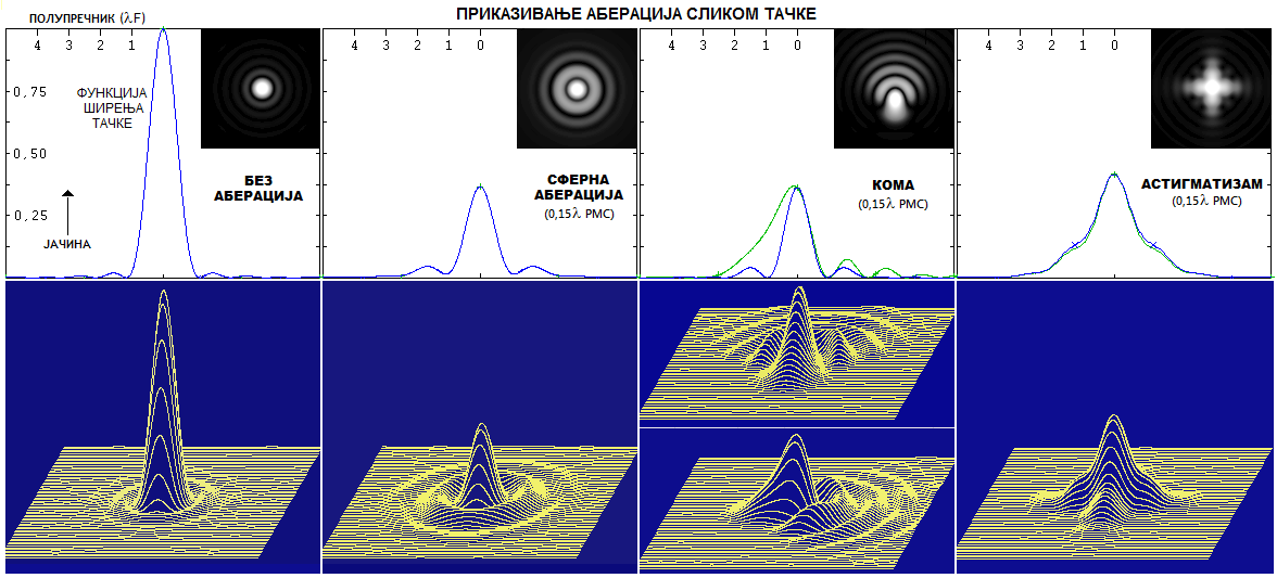 ПРИКАЗИВАЊЕ АБЕРАЦИЈА СЛИКОМ ТАЧКЕ